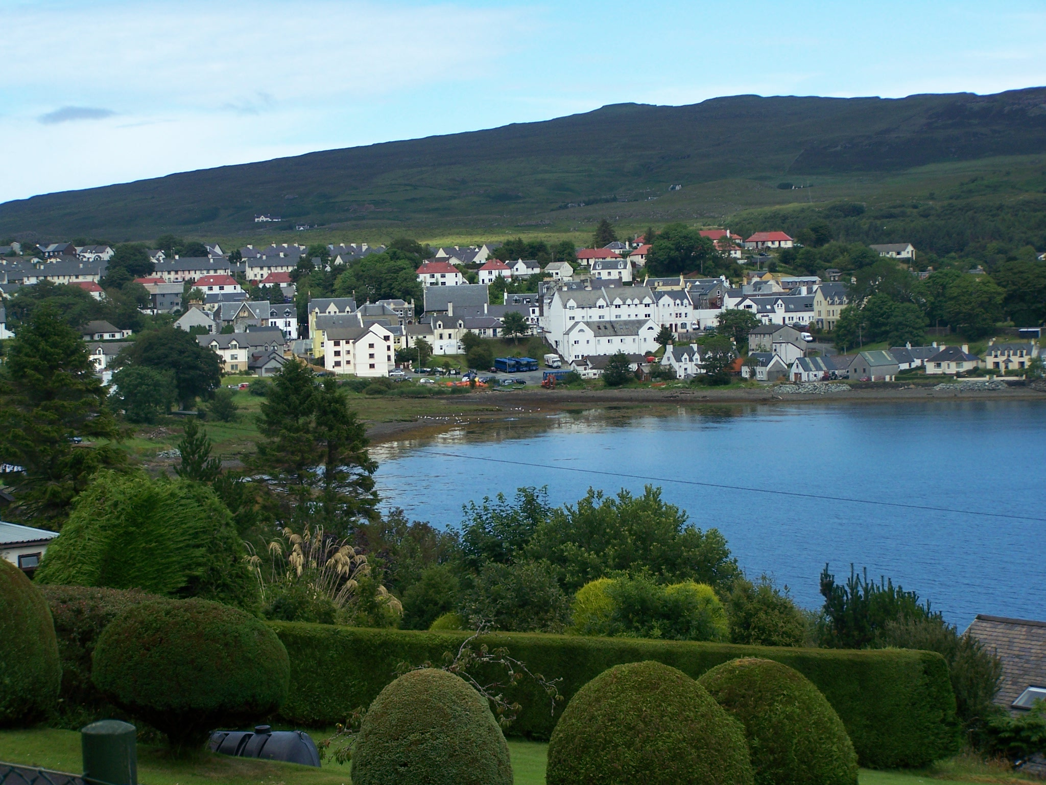 The Scottish city of Portree seen when entering from the south.